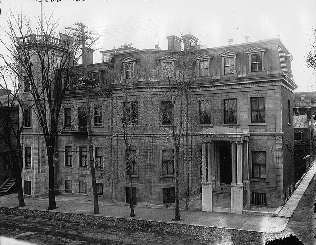 Alfred Baumgarten's house on McTavish Street, Montreal.